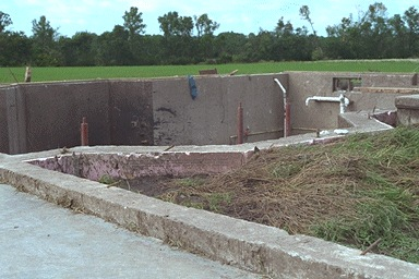 Remains of a home after it was hit by an F5 tornado near Oakfield, Wisconsin on July 18, 1996.